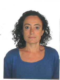 Identity Photo